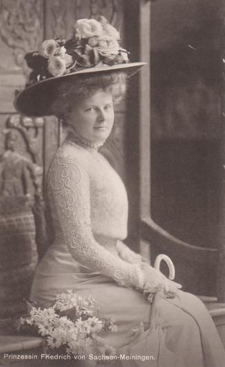 Countess Adelaide of Lippe-Biesterfeld (22 June 1870 - 3 September 1948), wife of Prince Friedrich Johann of Saxe-Meiningen.